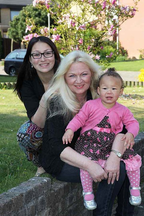 Colored photo of Toni with Daughter and Grand daughter